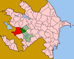 Map of Azerbaijan showing Kalbajar (Kəlbəcər) rayon. Part of the rayon (the dark green area) is part of Nagorno-Karabakh, part of the local province of Martakert.